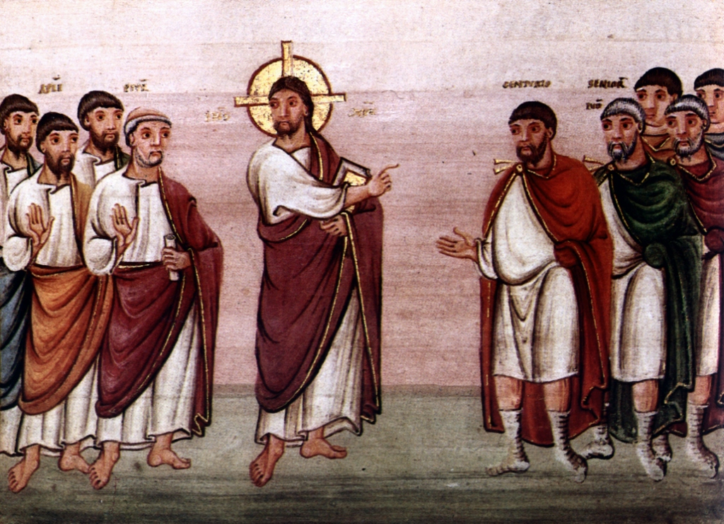 Jesus and the centurion in Capernaum (Matthew 8:5), miniature, Codex Egberti, Trier, Stadtbibliothek, cod. 24, fol. 22r, detail